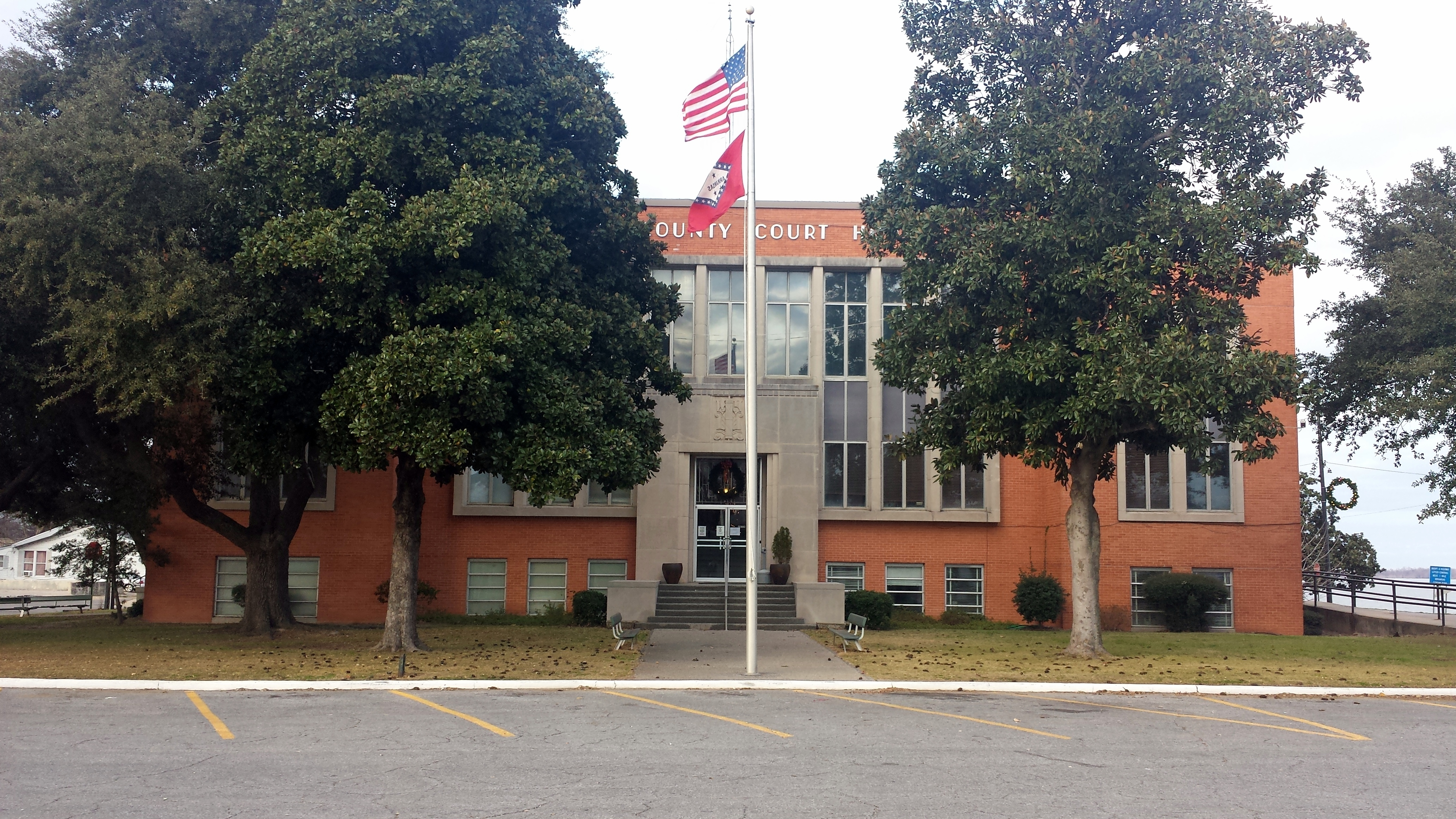 1956 Art Deco-inspired county courthouse. Listed in National Register of Historic Places on 2/1/2006.